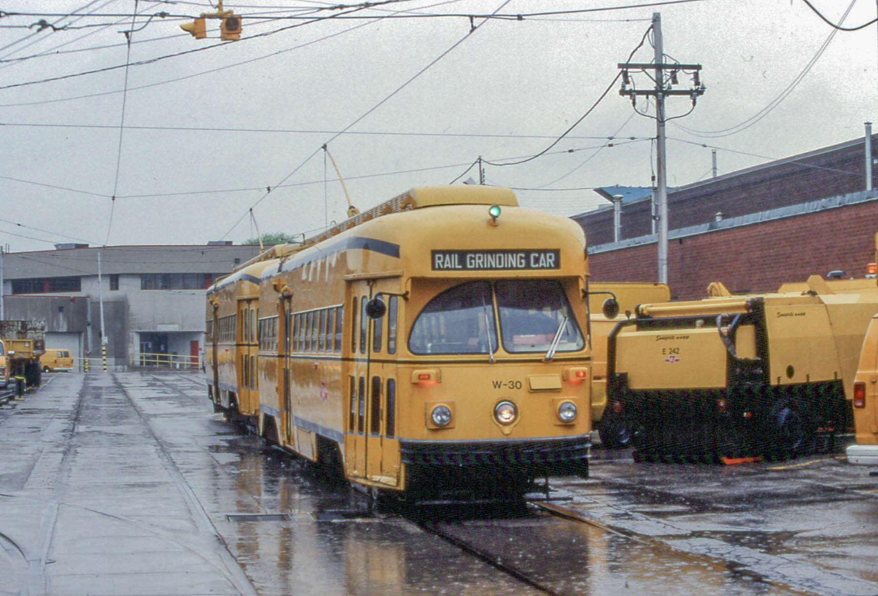 19950529 13 TTC Hillcrest Shop